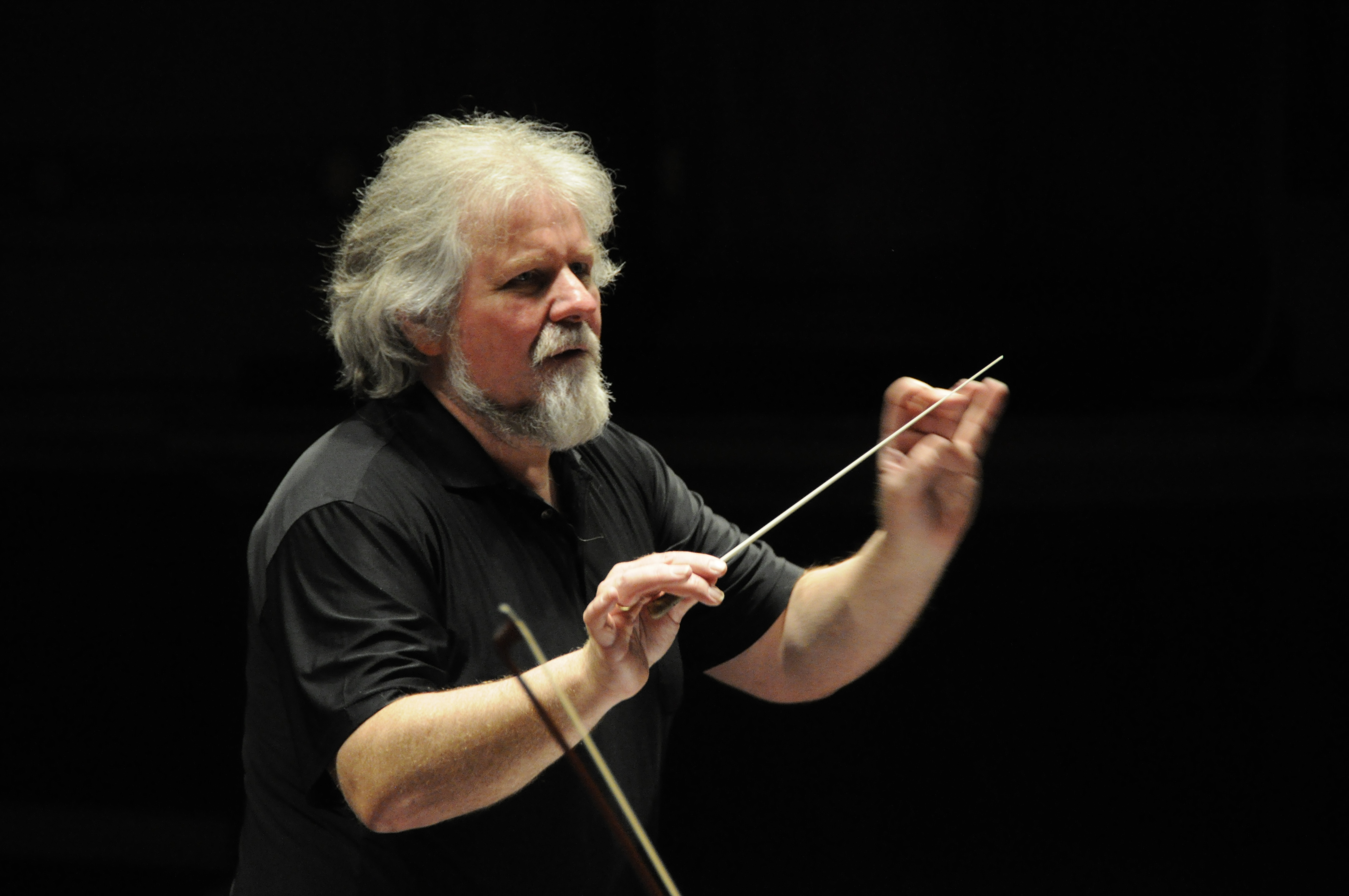 Terje MIkkelsen conducting Czech Naional Orchestra in London